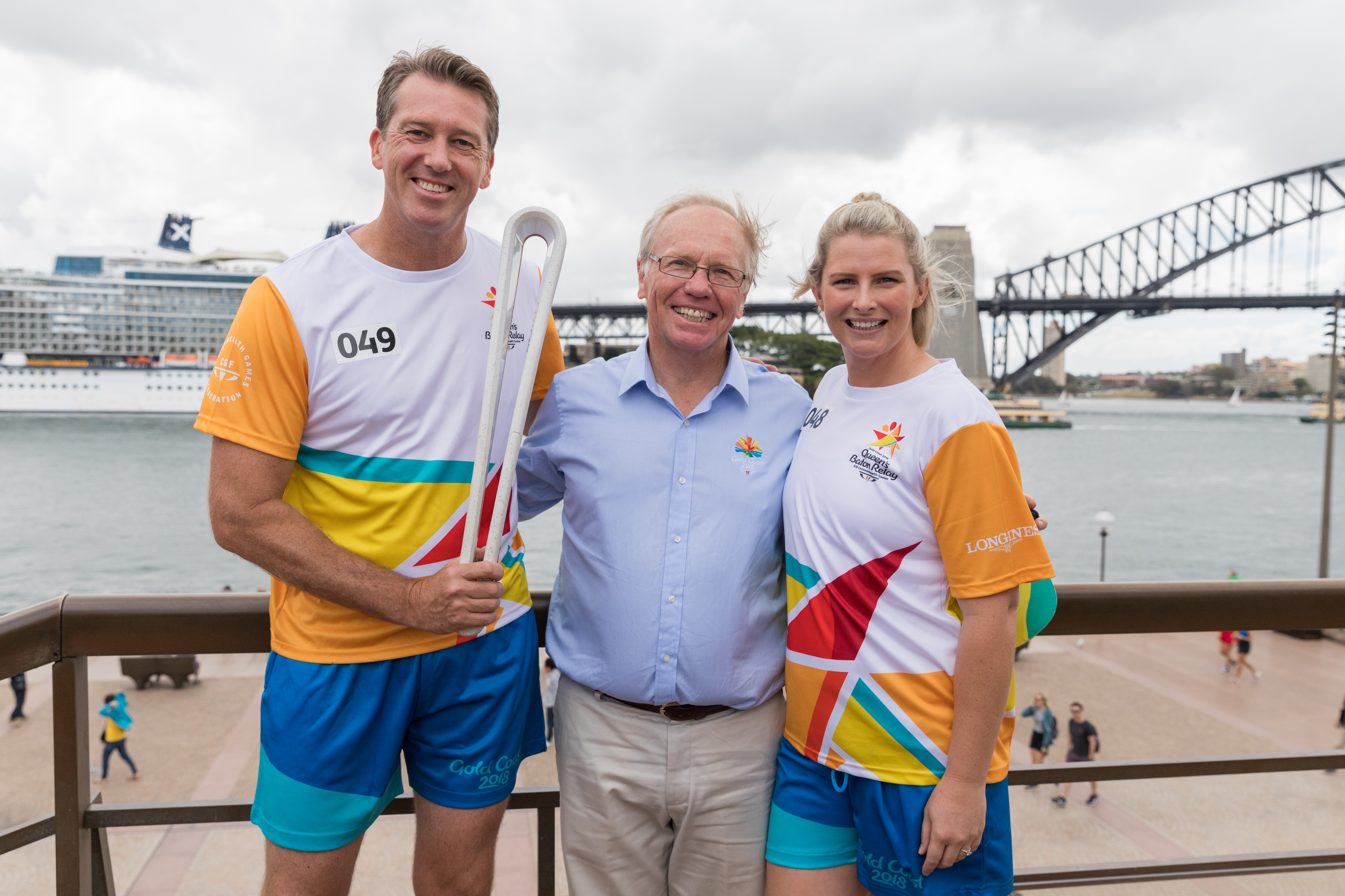 Left to right: Athlete Glenn McGrath, former Queensland premier Peter Beattie, and athlete Leisel Jones at the Queen's Baton Relay in Circular Quay, Sydney, Australia.